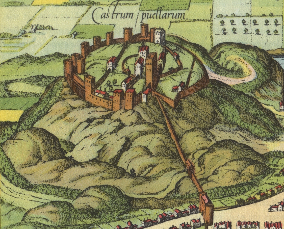 The reason for the name "Castle of the Maidens" (after Geoffrey of Monmouth) is obscure.